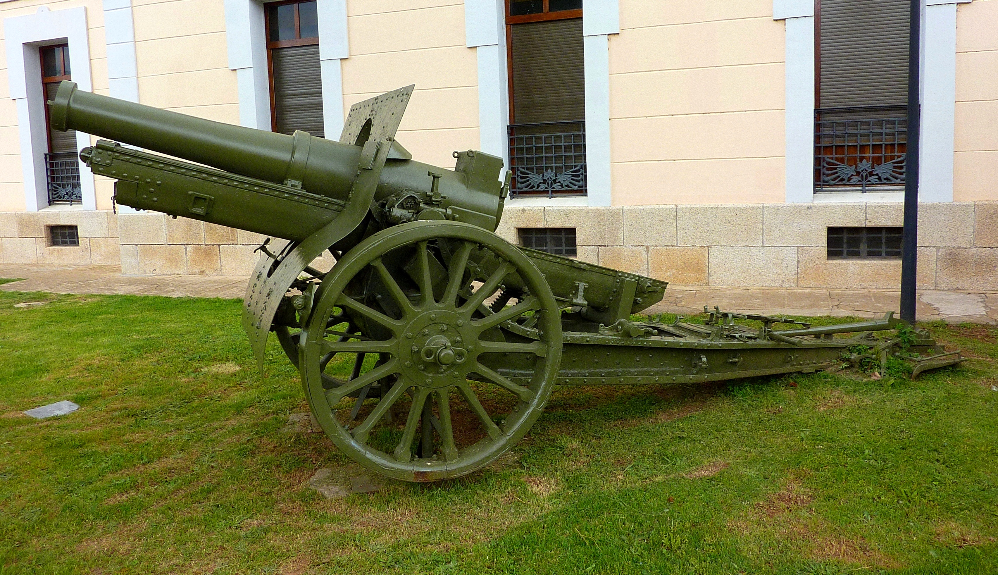 Schneider 155/13 modèle 1917 of the Spanish Army.